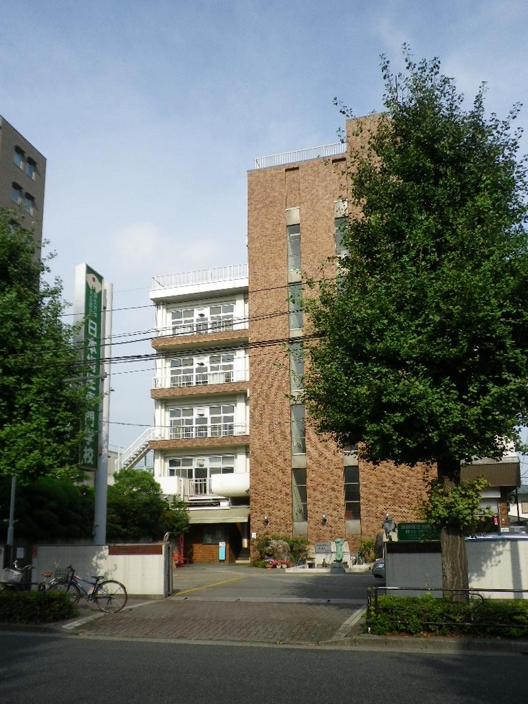 JAPAN SHIATSU COLLEGE